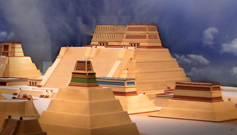 Model of the Templo Mayor (main temple) of Tenochtitlan